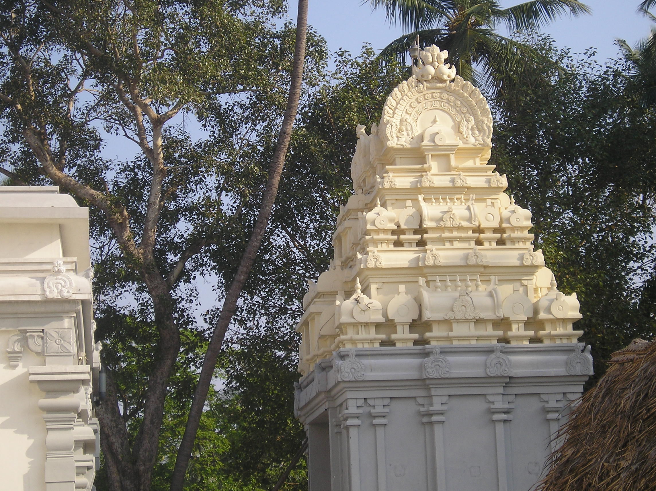 Govindapuram